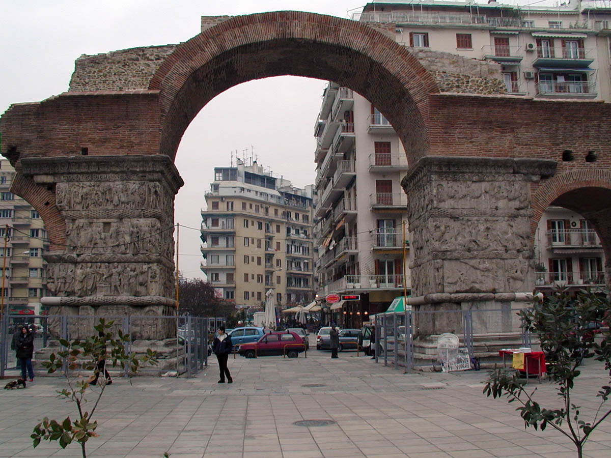 Arch of Galerius in Thessaloniki, East face. Photography taken by Μαρσύας.